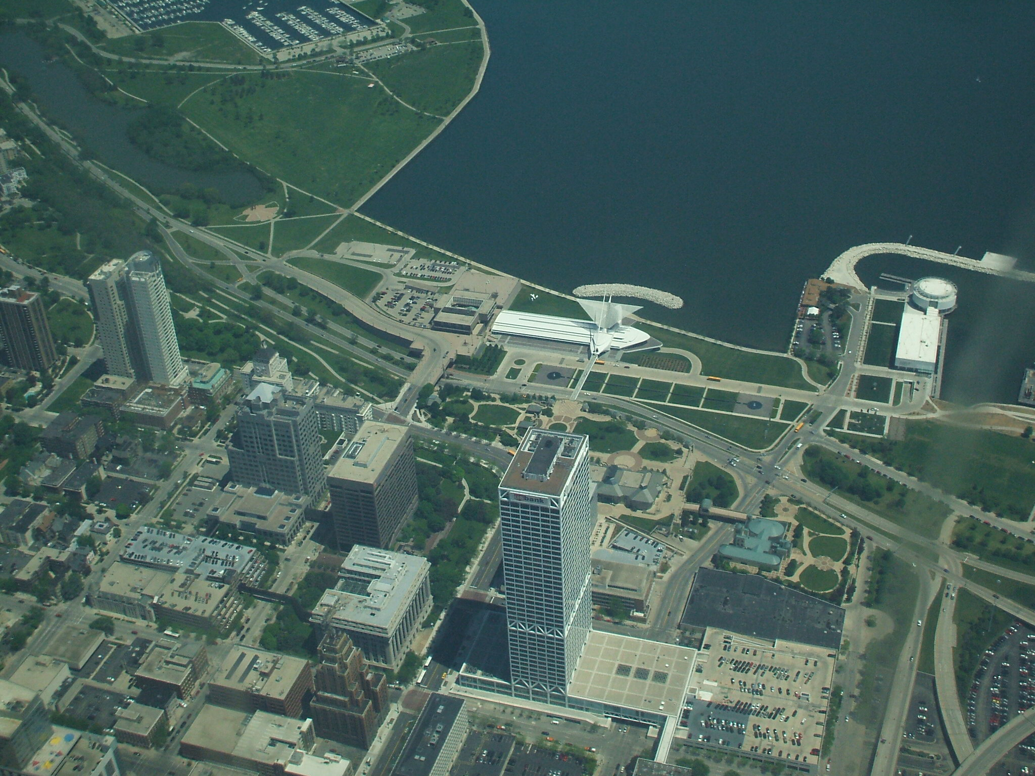 Milwaukee, Wisconsin Art Museum, see from above